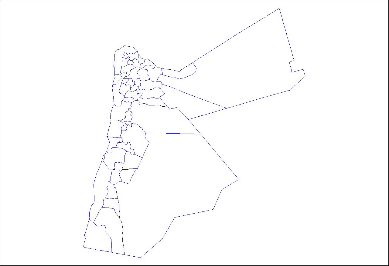 Map of the nahias of Jordan. Created by Rarelibra 16:04, 20 December 2006 (UTC) for public domain use, using MapInfo Professional v8.5 and various mapping resources.